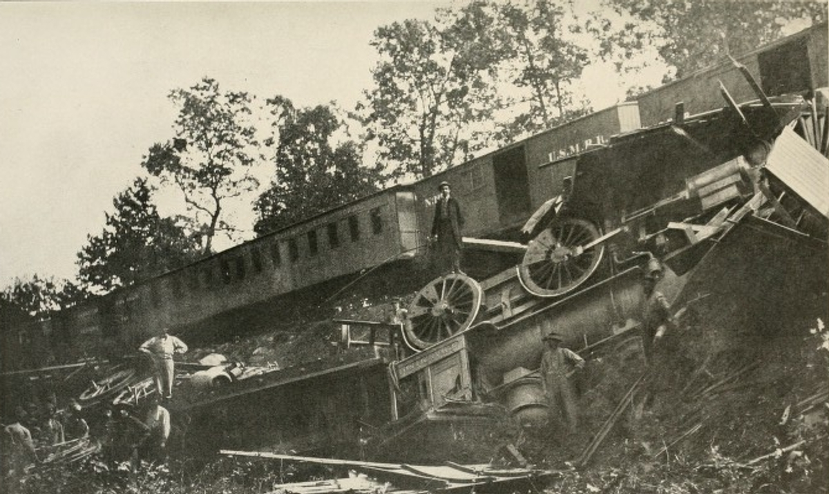 Train derailed by Confederate cavalry on August 26, 1862 during the Battle of Manassas Station Operations. (stated incorrectly by source as August 26, 1863)